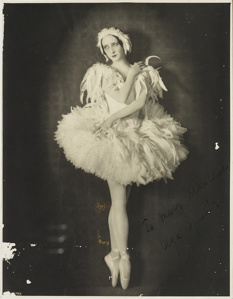 Olga Spessivtzeva (Spessiva) in Swan Lake (as Odette) costume, 1934 photographer Sydney Fox Studio, 3rd Floor, 88 King St, Sydney